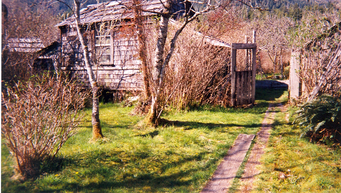 Cougar Annie's House in 1998. Picture taken by me in 1998